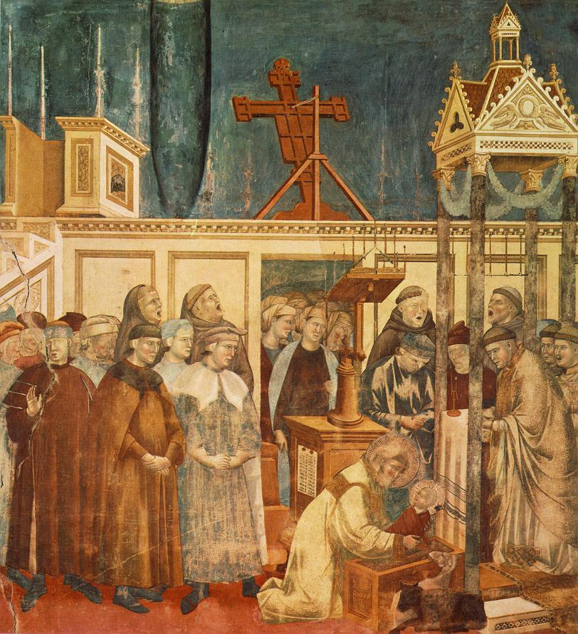 Legend of St Francis